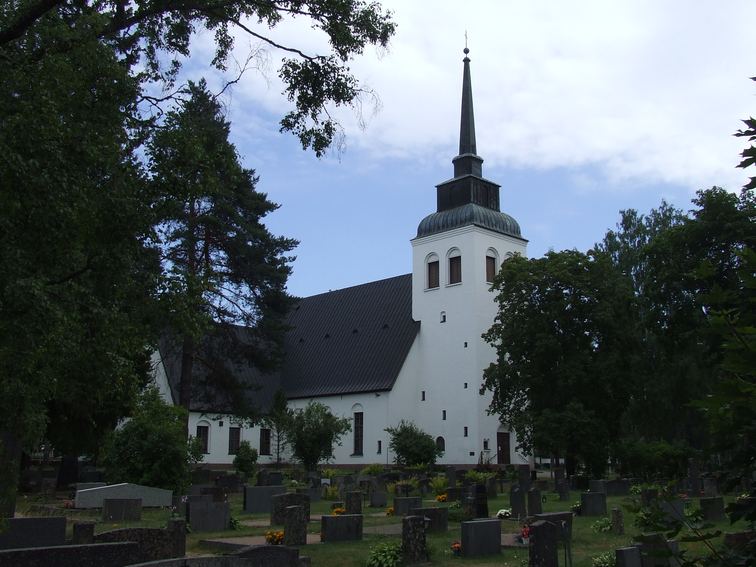 Valkeala church in Kouvola, Finland.